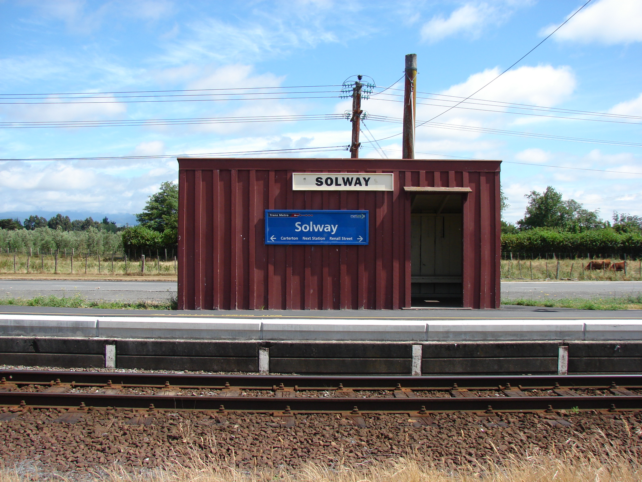 Historic Class 6 "Vogel-era" passenger shelter shed at Solway railway station. Photographed by Matthew25187 on 2007-12-15.